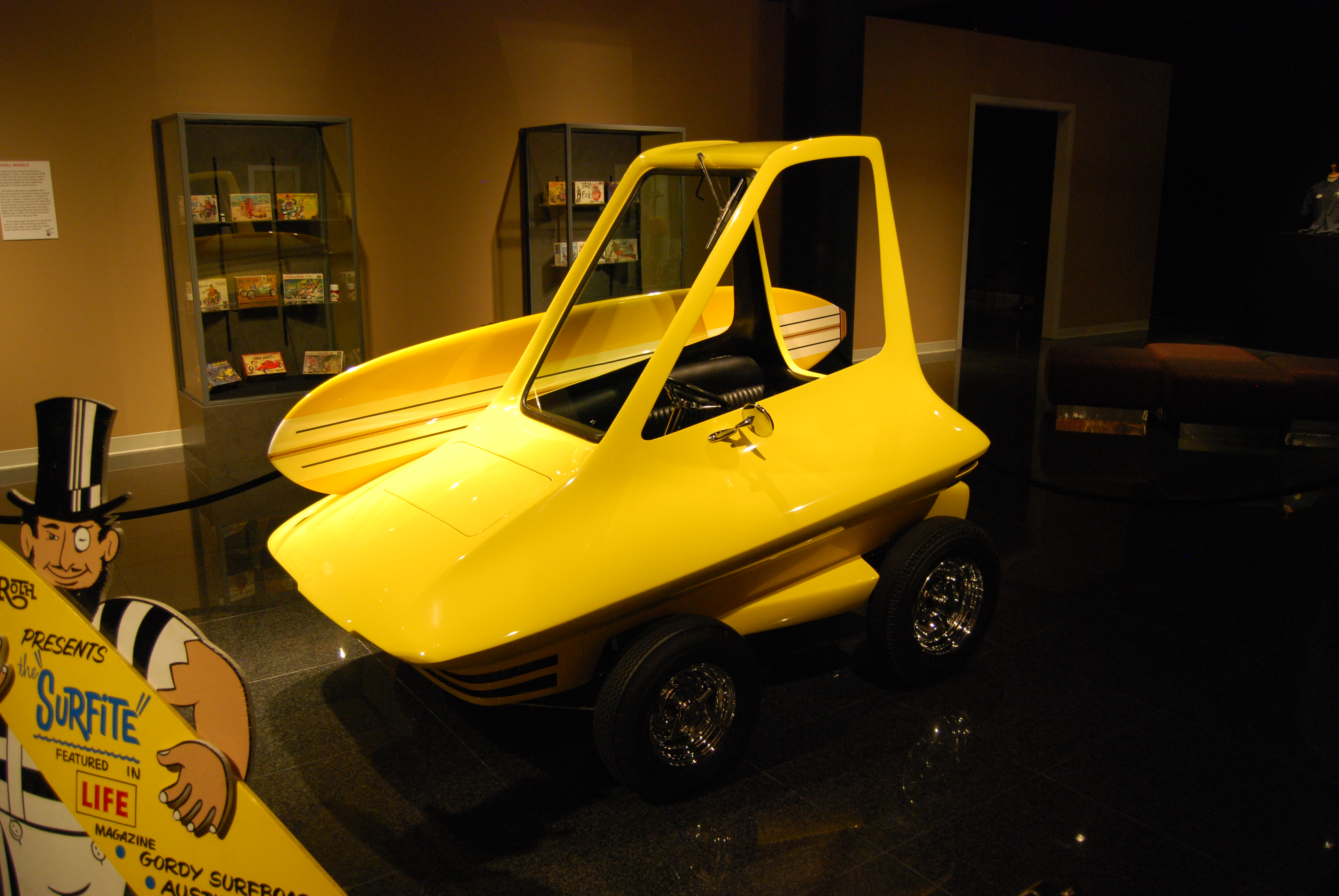 In his later years, Roth became less interested in V-8 power and began working with smaller and more efficent engines- VWs and then Hondas. DSC_0736